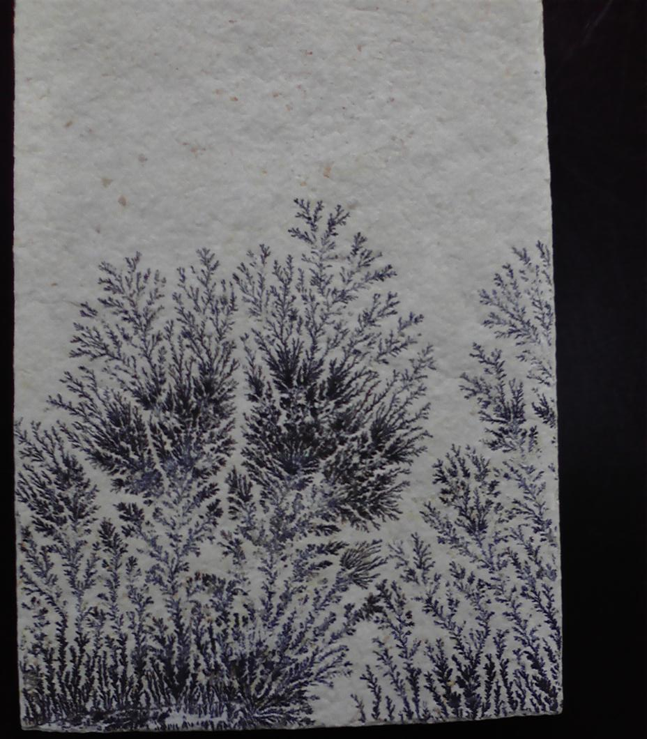 Dendrites of manganese dioxide on a stratum plane of limestone from Solnhofen, Bayern, Germany. University of Tsukuba is owning this.